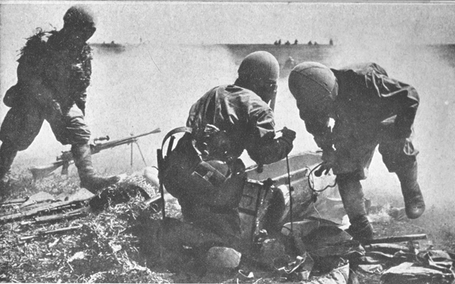 Imperial Japanese Army paratrooper are accessing their cargo container to get out light machine guns, rifles and grenade launchers during the battle of Palembang, February 13, 1942.